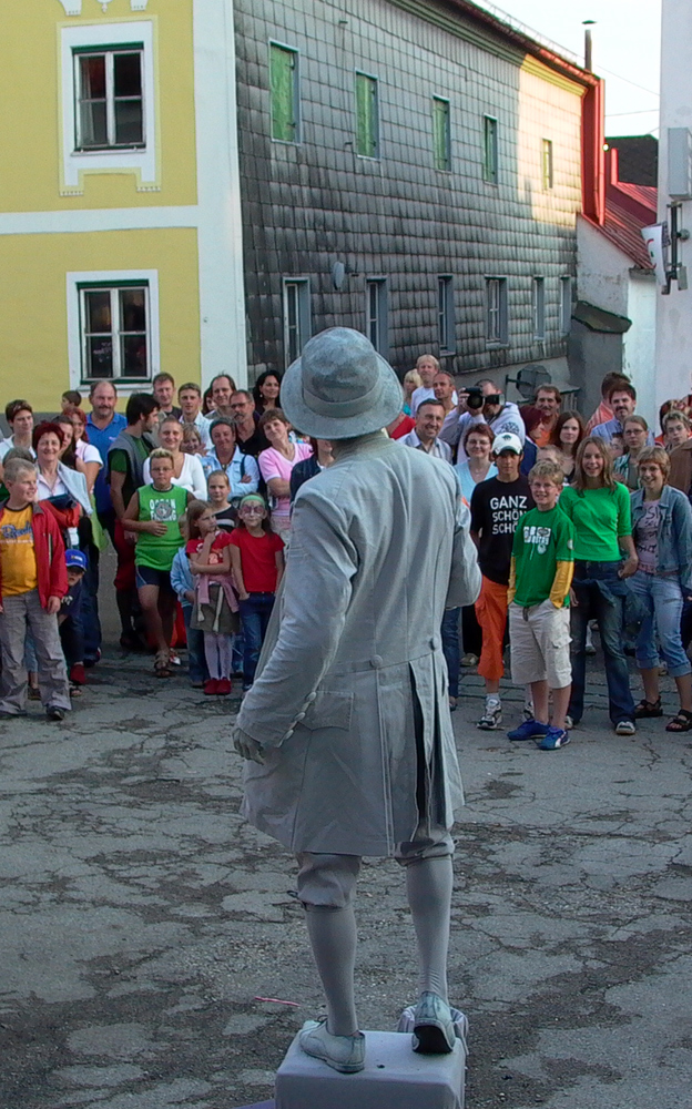 I, Damian McKinnon of "Stillman Theater" am the author and source. Articles: Living Statue, Street Performance, Busker